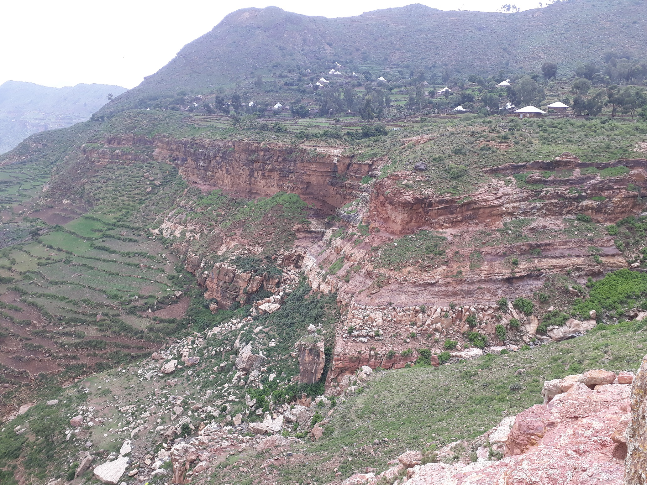 Gumuara village, on top of the Adigrat Sandstone cliff. Upper part of the landscape in basalt. See the Geoguide Dogu'a Tembien Ethiopia for more details.